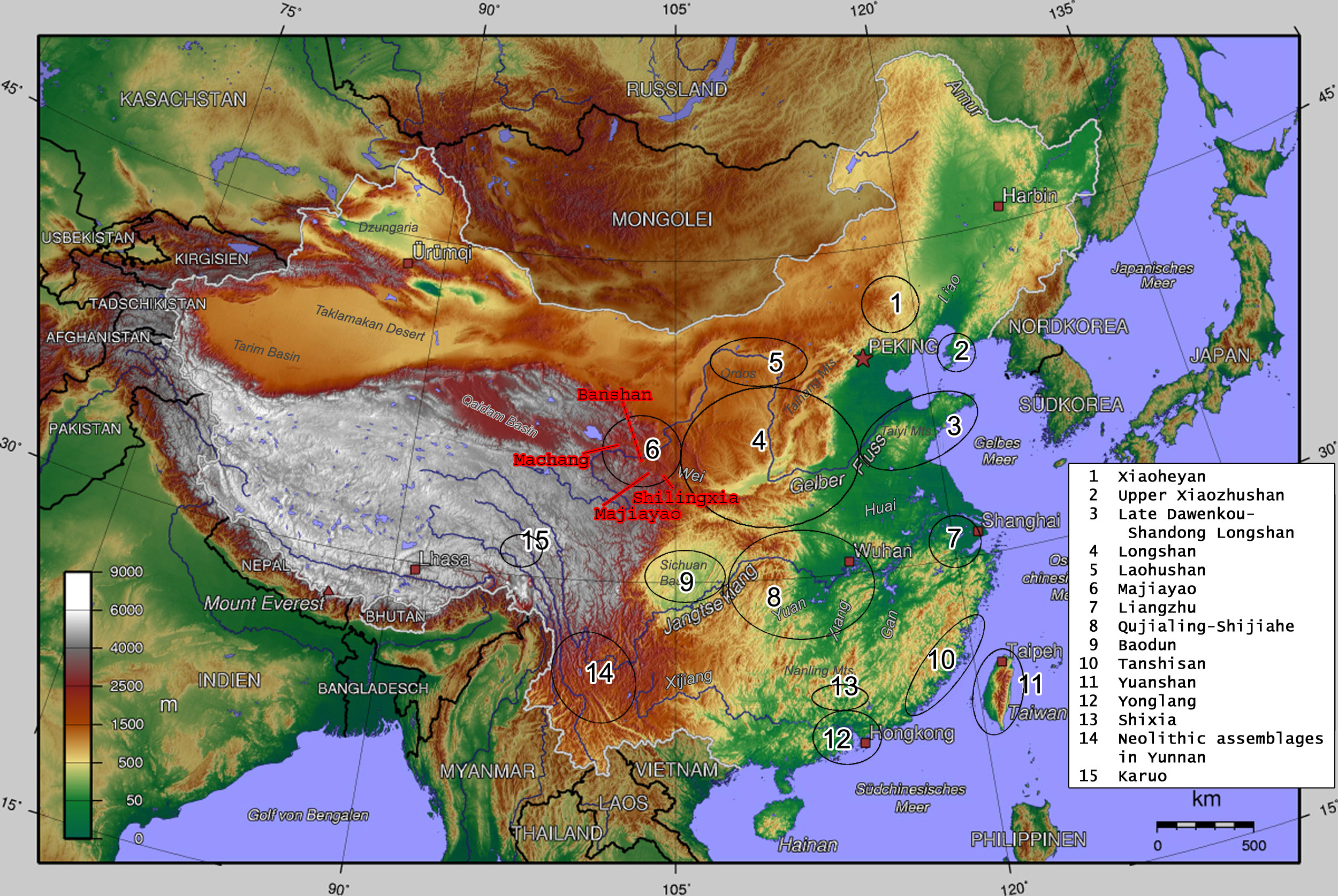 Late Neolithic cultures in China. Majiayao main sites